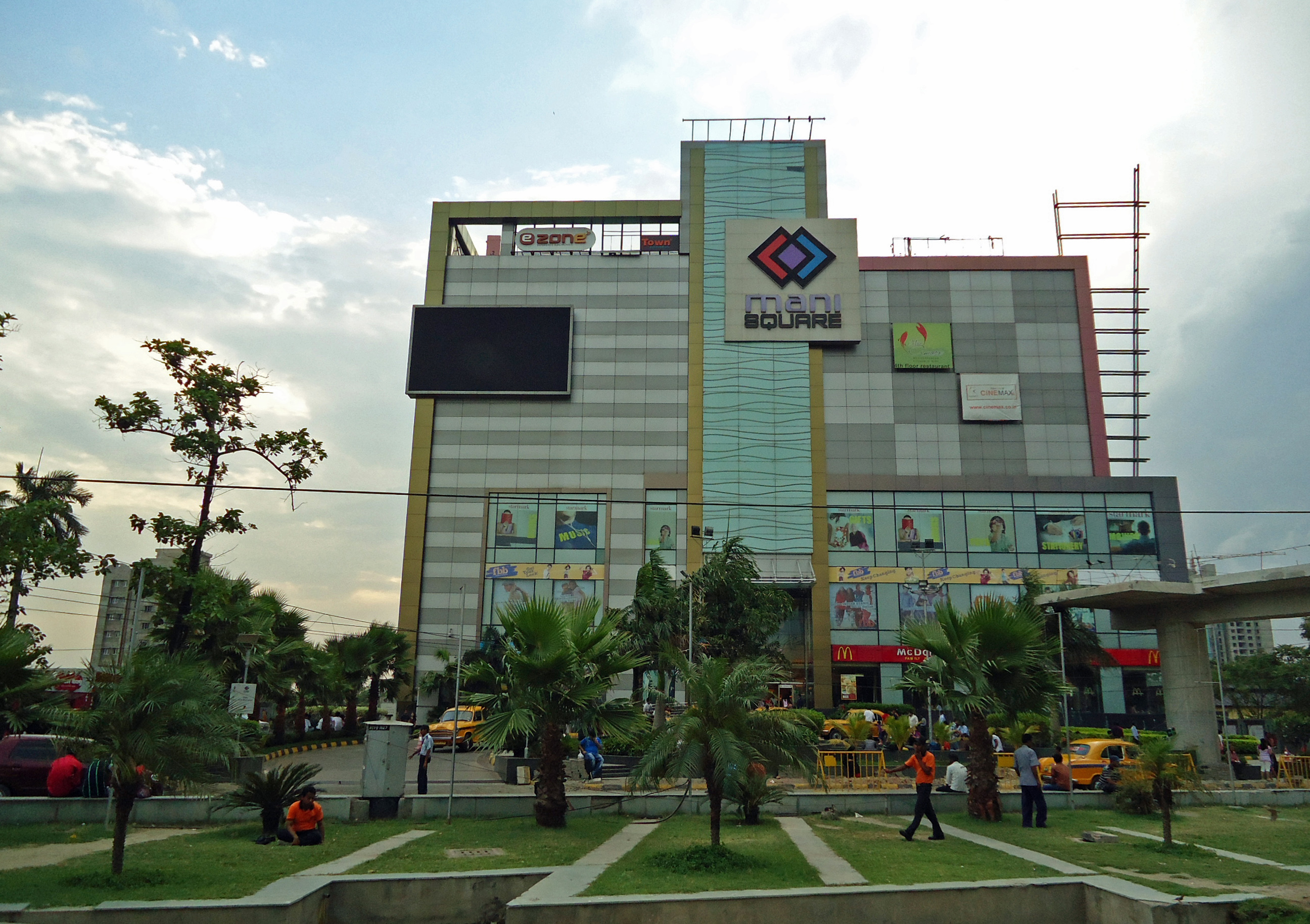 Front facade view of Mani Square